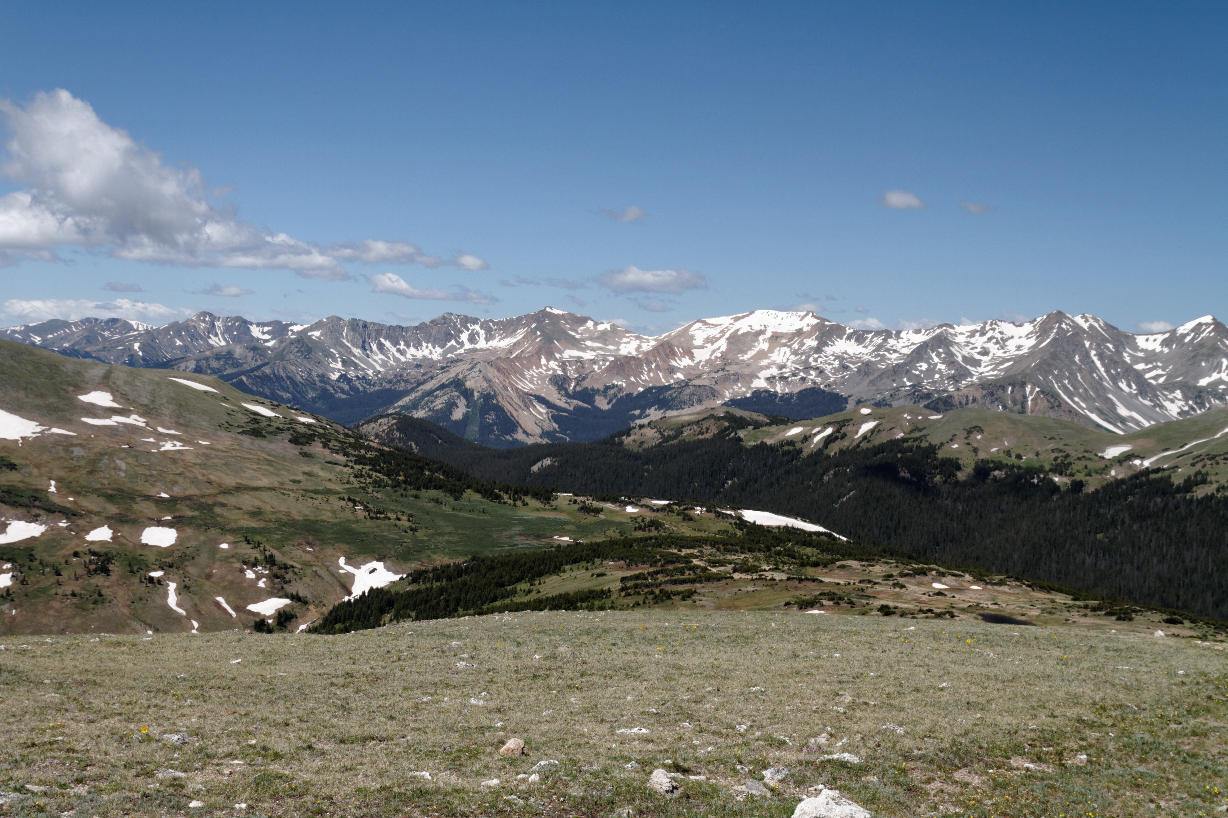 RMNP 2010-07-05